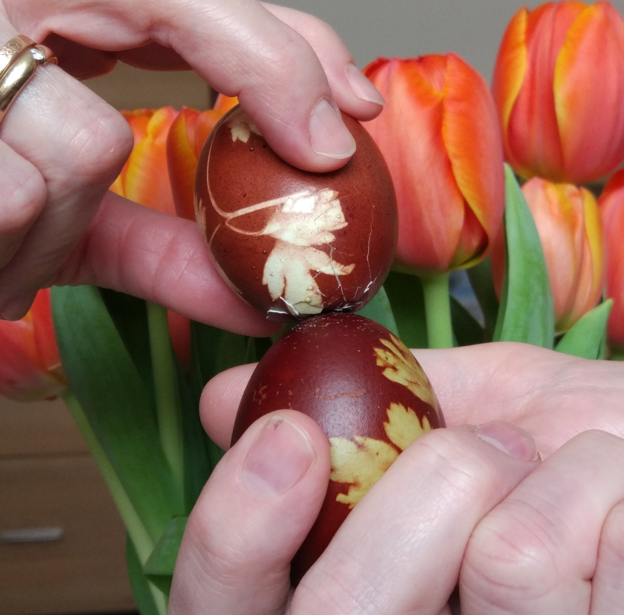 Egg tapping